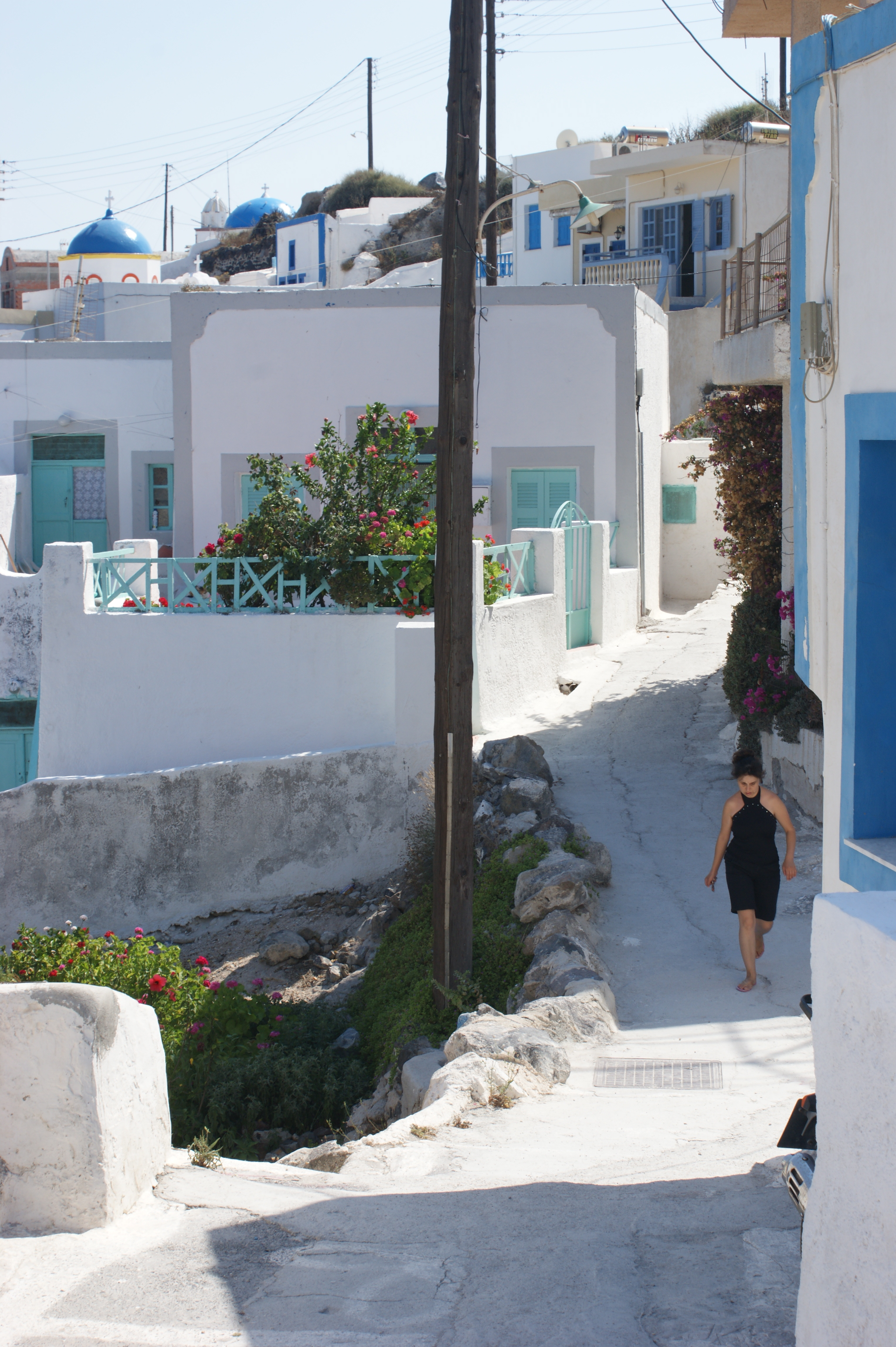 Main alley of Thirasia – Θηρασία